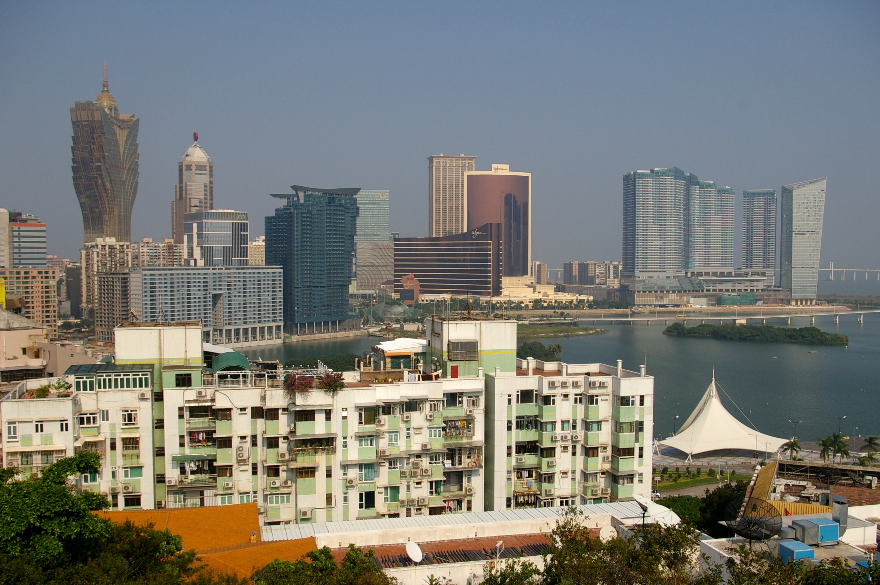 Macau